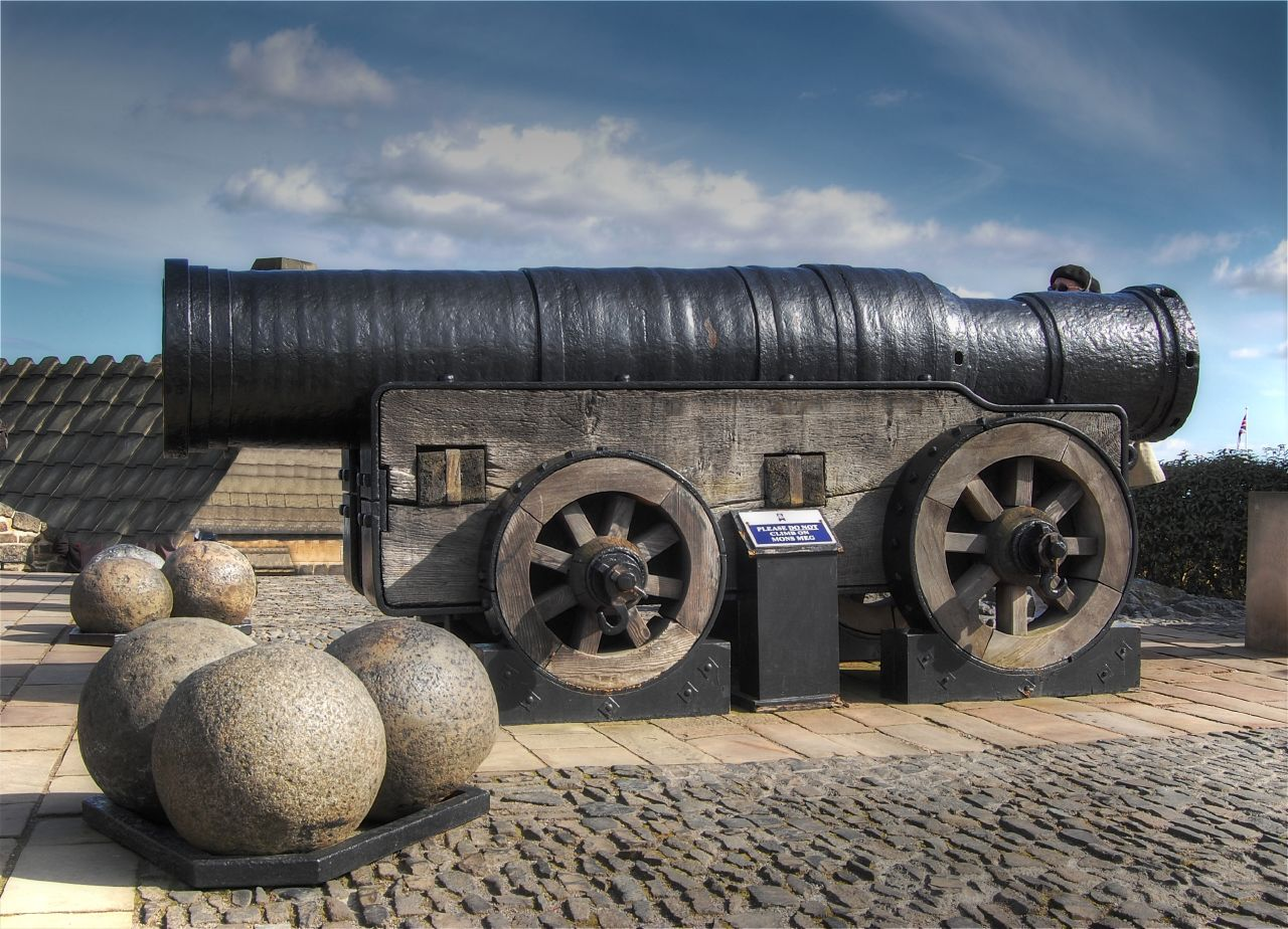 Mons Meg, a medieval supergun of the first half of the 15th century from Edinburgh, Scotland